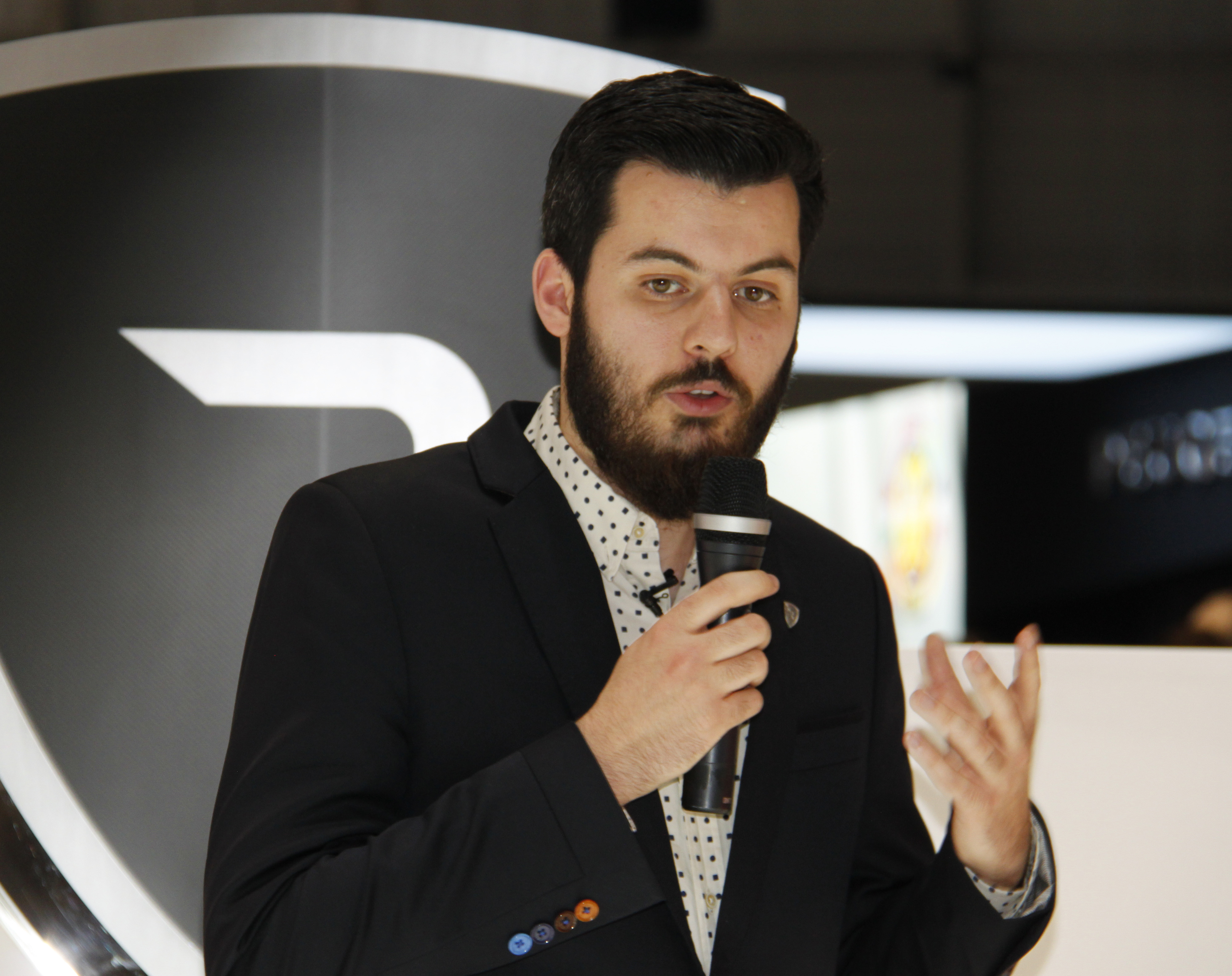 Mate Rimac at the 2017 Geneva Motor Show